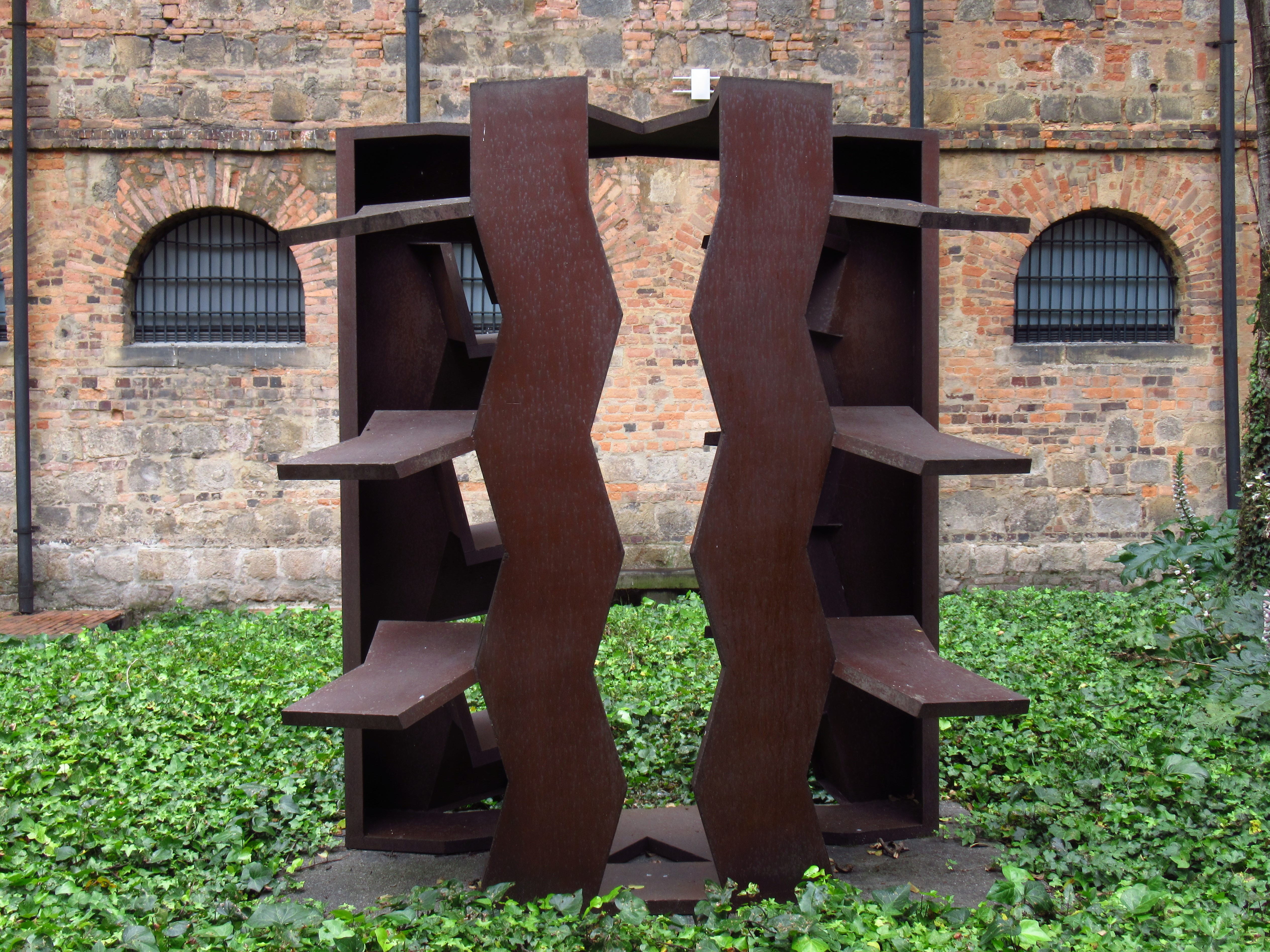 Bogotá